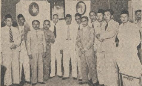 Portrait of the ministers of the Third Djumhana Cabinet, along with several other officials.